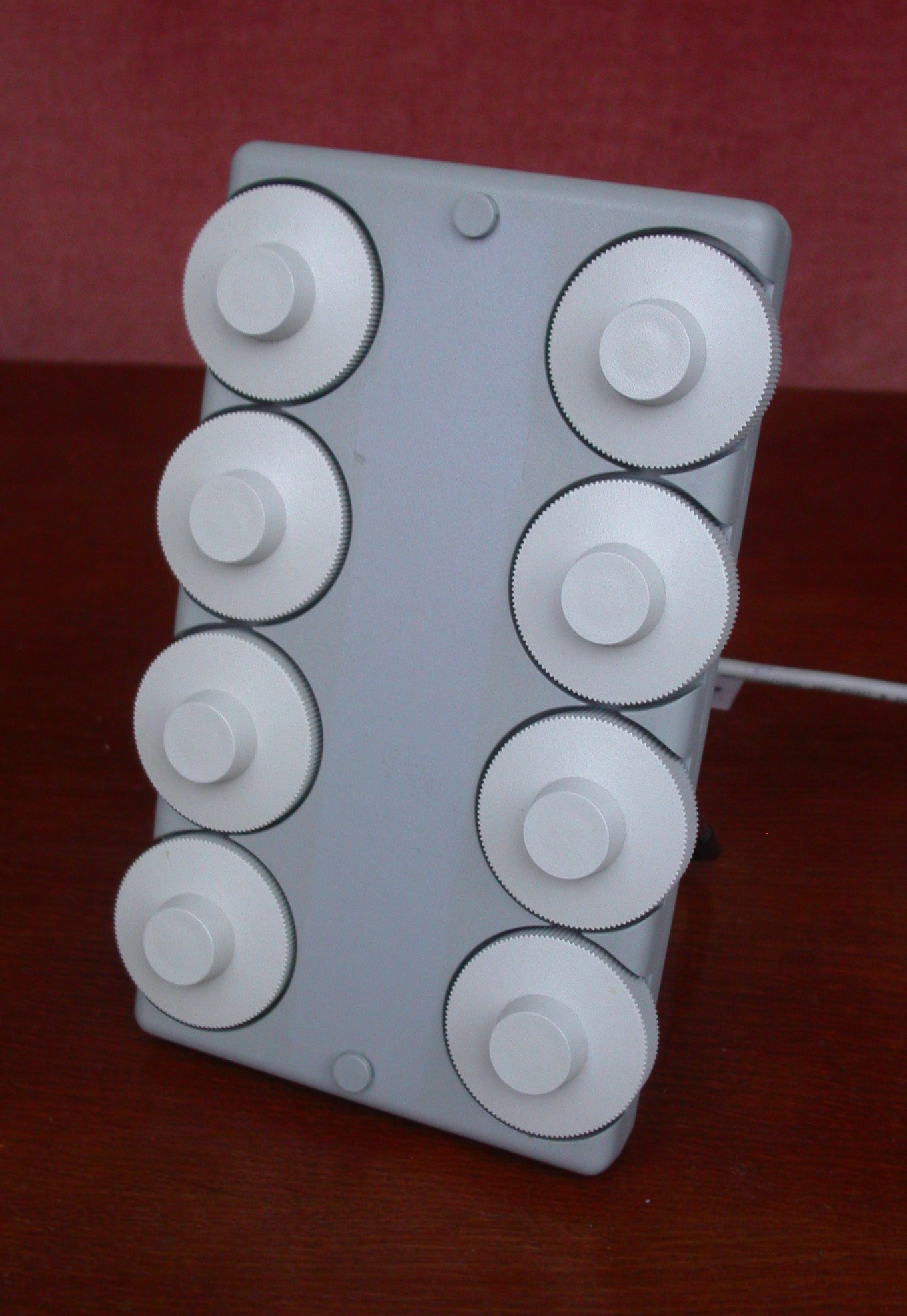 Dial box for molecular graphics software. Made by Silicon Graphics Inc., model DLS80-1022, part no. 9980992, front view.